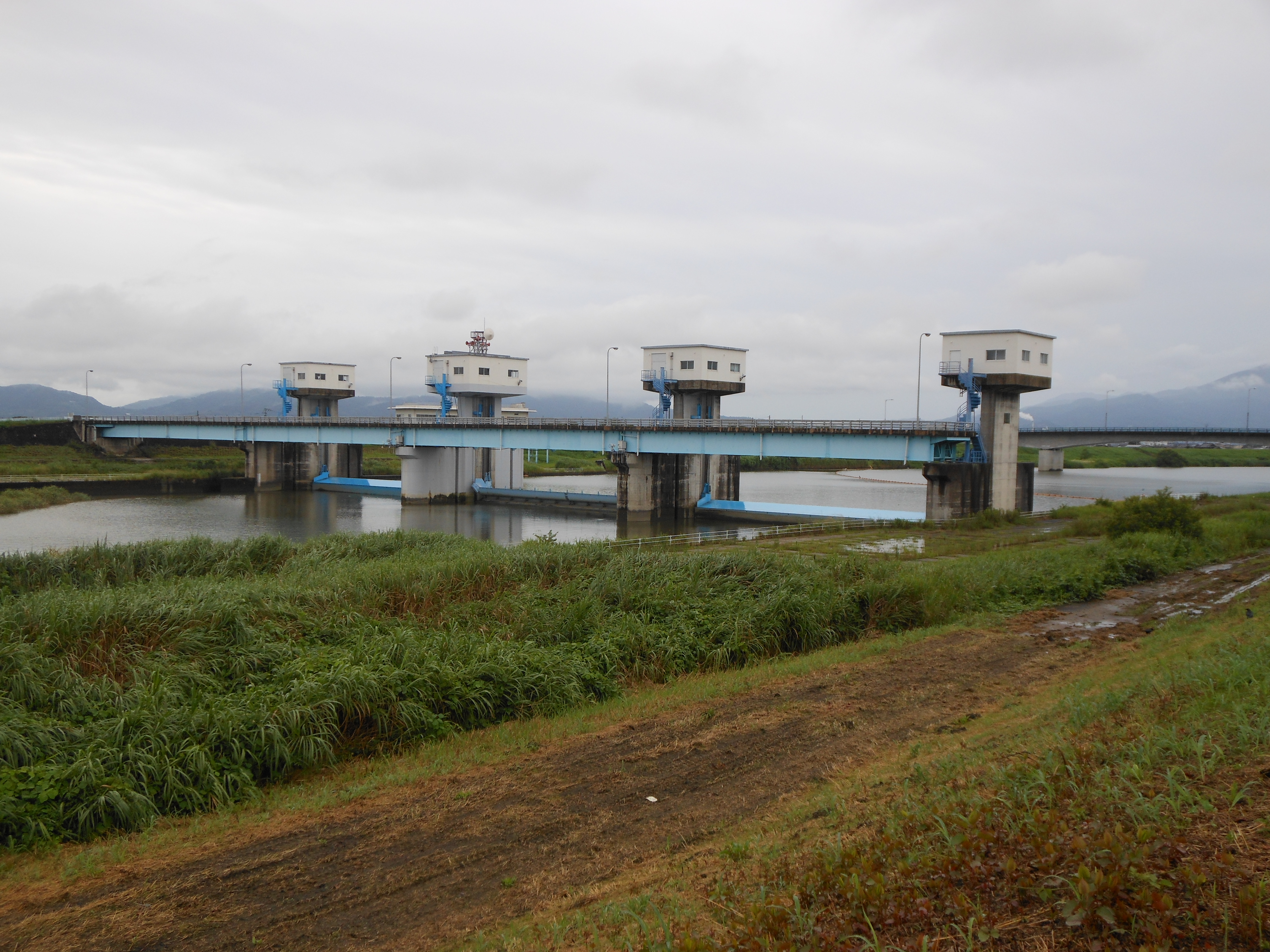 Kasegawa-Ozeki Weir of Kase River, Saga city, Saga prefecture, Japan.